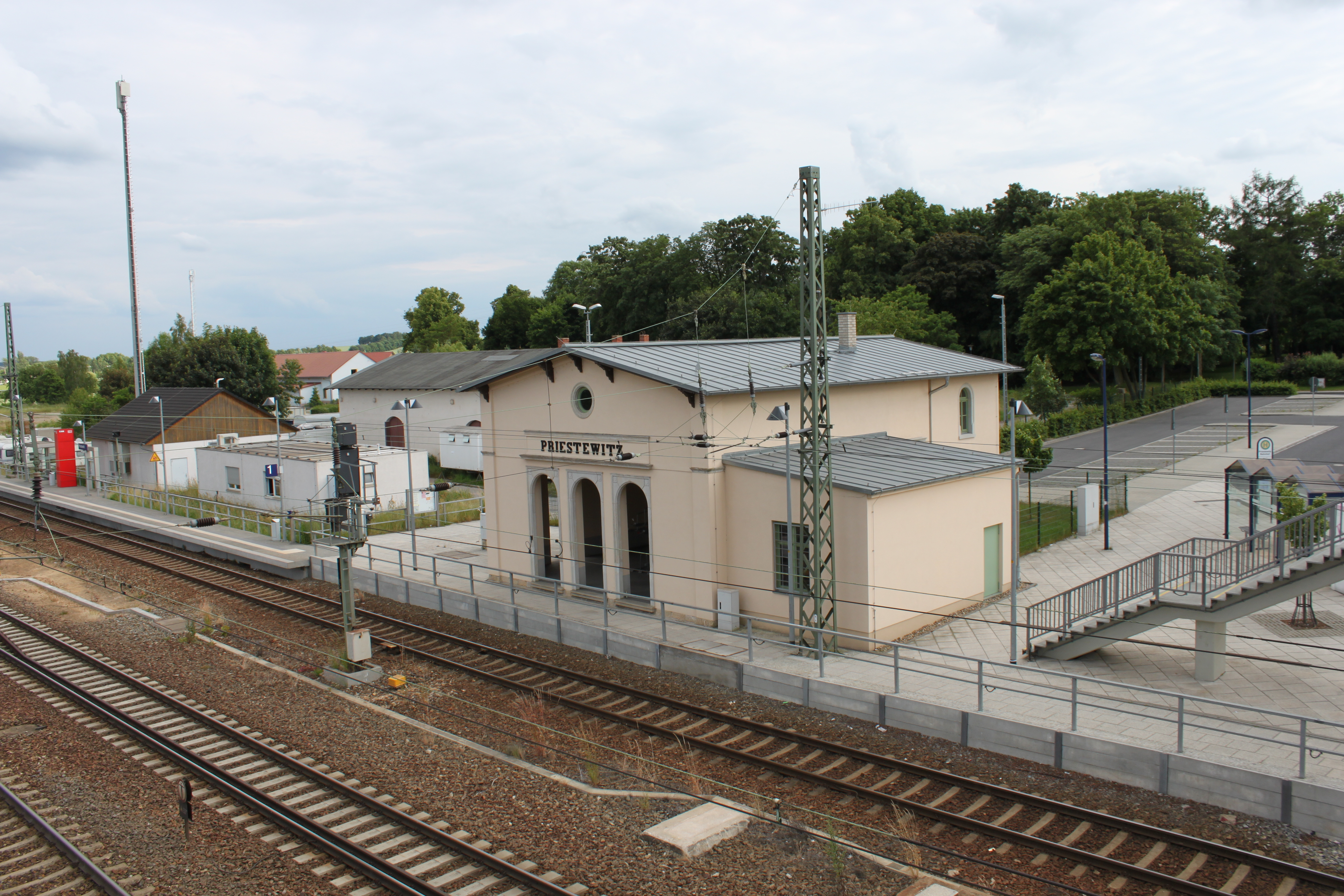 Trainstation Priestewitz